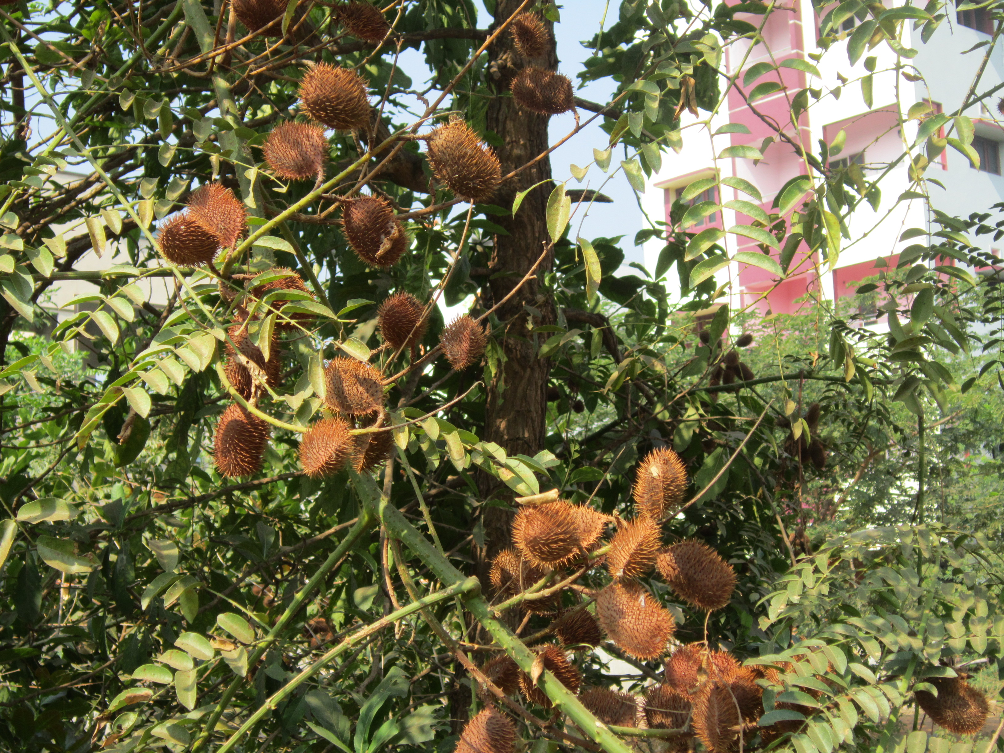 Caesalpinia plant matured pods